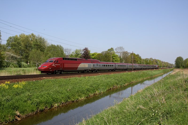 Thalys PBA set near Dordrecht Zuid heading for Paris, 24th April 2009